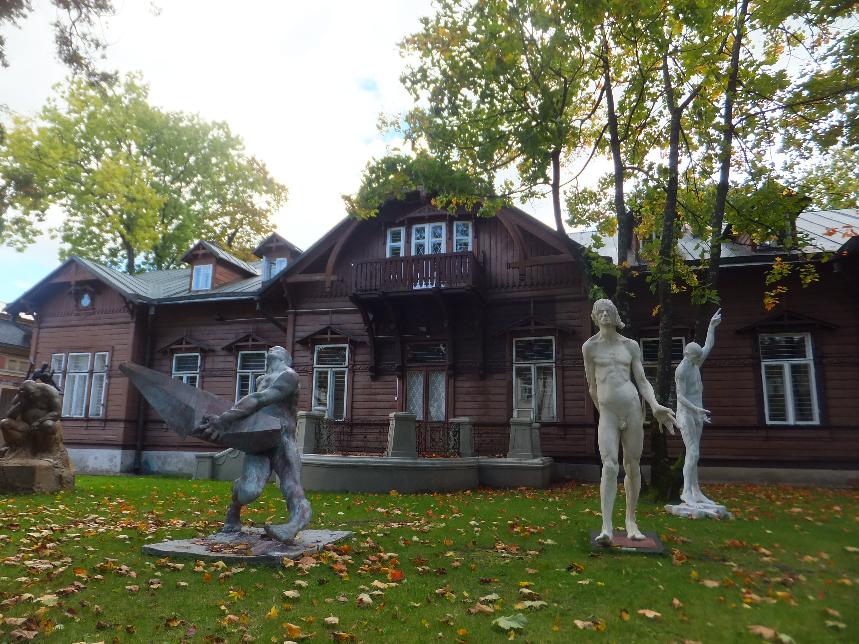 Białystok - house XIX/XX cent. on Świętojańska st.